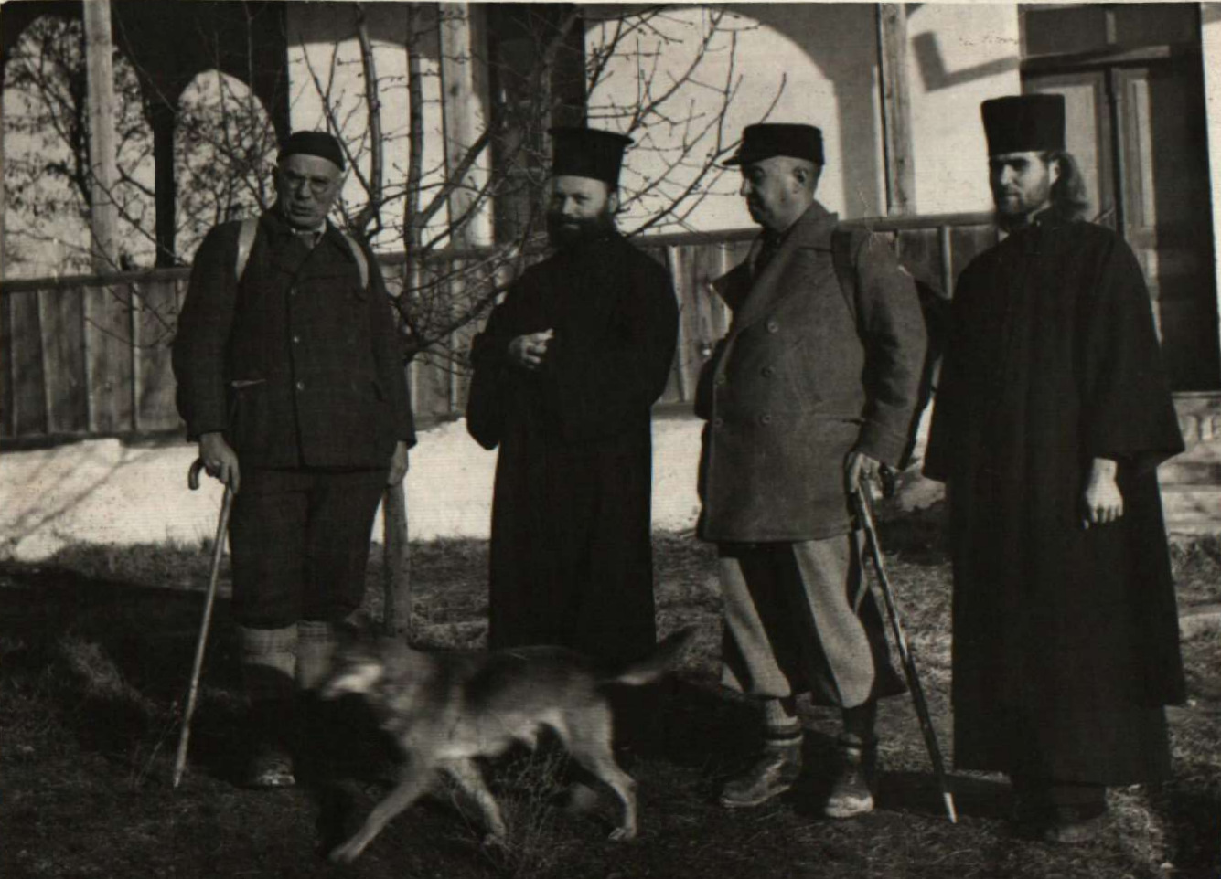 Photos of Pavel Deliradev of its tourist trips in Bulgaria. Kalugerovo monastery St. Nicholas.